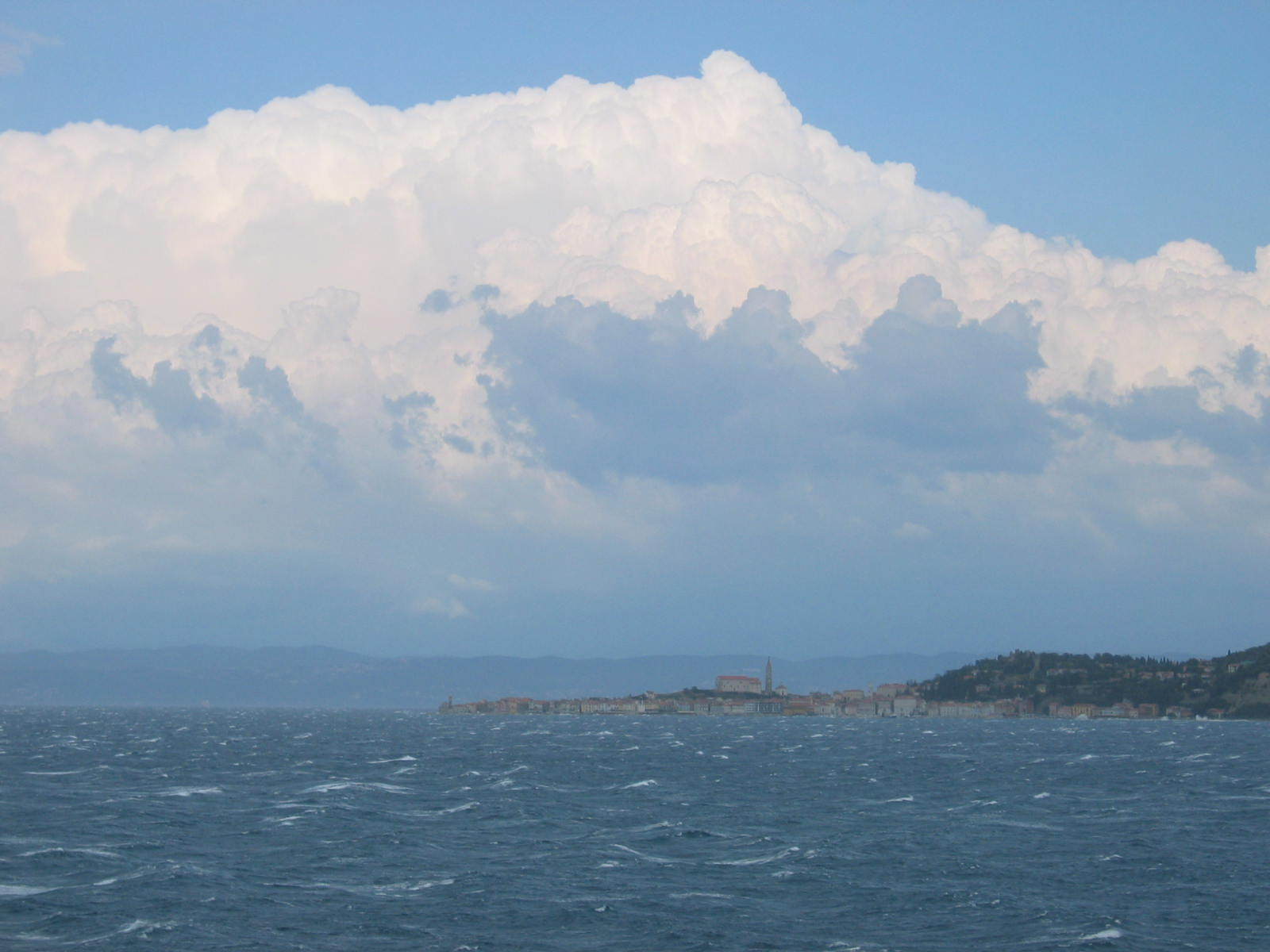 Piran, coastal city in Slovenia (the wind blowing is tramontane)